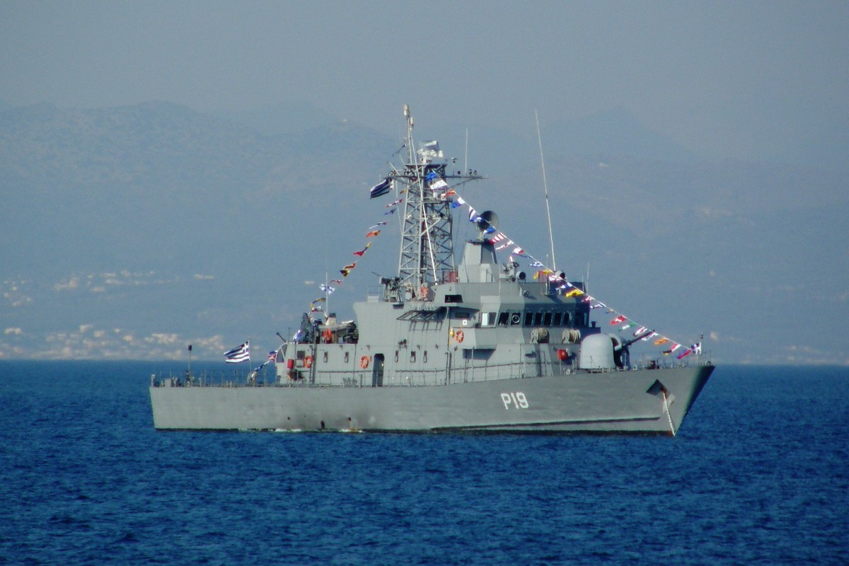 Osprey 55 class gunboat HS Navmachos, P-19 (Κ/Φ Ναυμάχος) at Phaleron Bay.